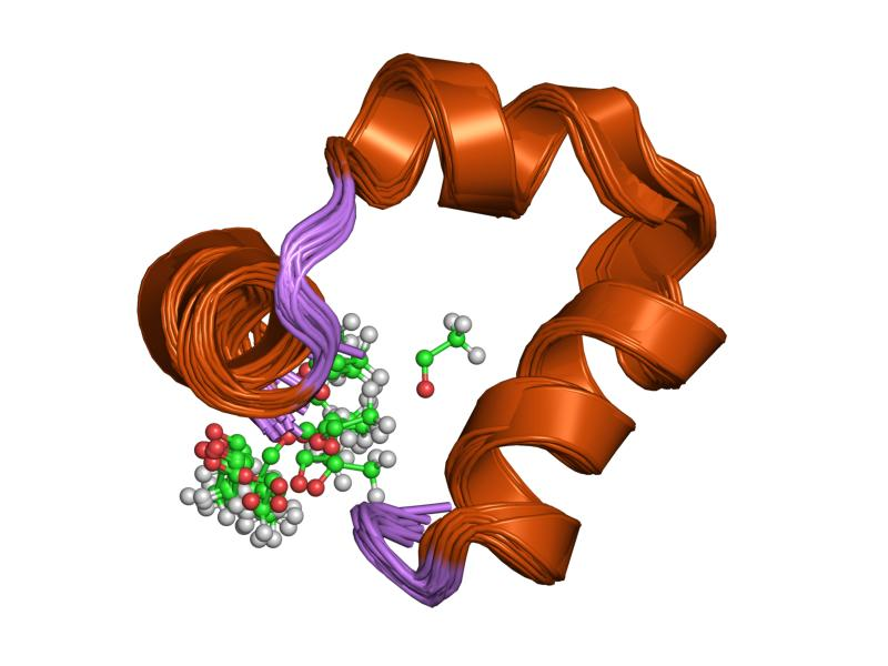 Cartoon representation of the molecular structure of protein registered with 1unc code.